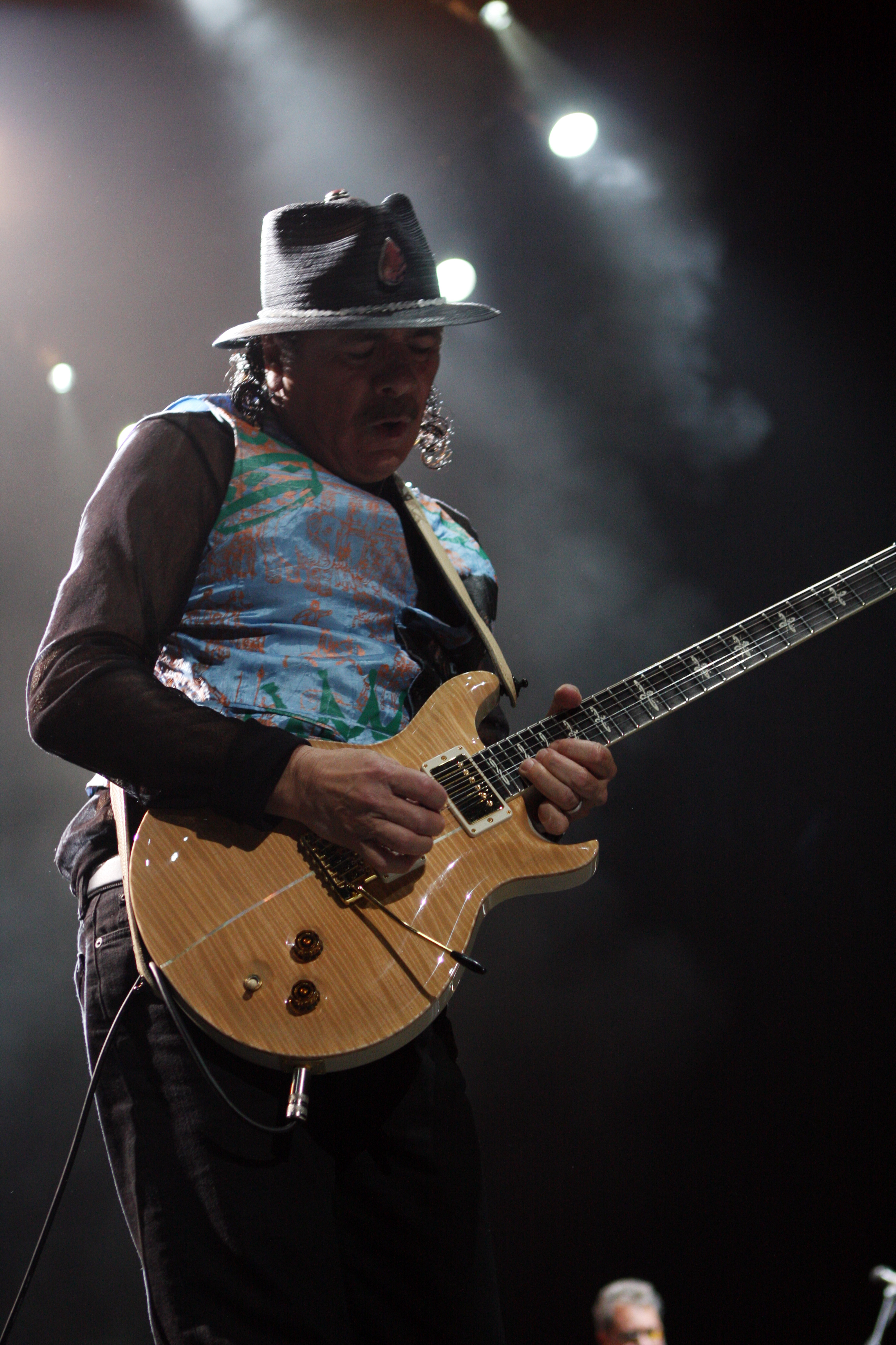 Santana Acer Arena Sydney